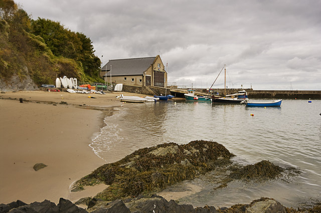 Lifeboat station The Lifeboat station at New Quay West Wales